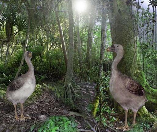 Pezophaps solitaria, a digital recreation in natural environment based in Leguat descriptions and skeletal morphology. Nesting female individual with an egg, and a male individual are on display in a reconstructed pre-human environment of Rodrigues Island.